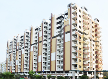 Sagar Landmark is a High-Rise project situated at Ayodhya Bypass Road, Bhopal.